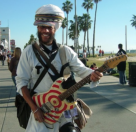 I took this photo at the Venice, Los Angeles, California boardwalk on January 14, 2007.